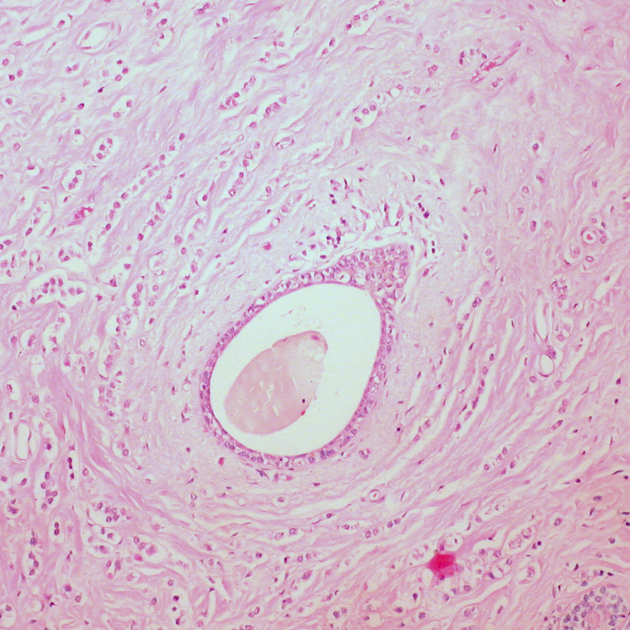 These tumors are notorious for how cytologically bland they are. They can be easily missed on small biopsies. On a larger section, such as this one from a mastectomy, the characteristic "targetoid" pattern of invasion can be appreciated. Pathological and histological images courtesy of Ed Uthman at flickr.